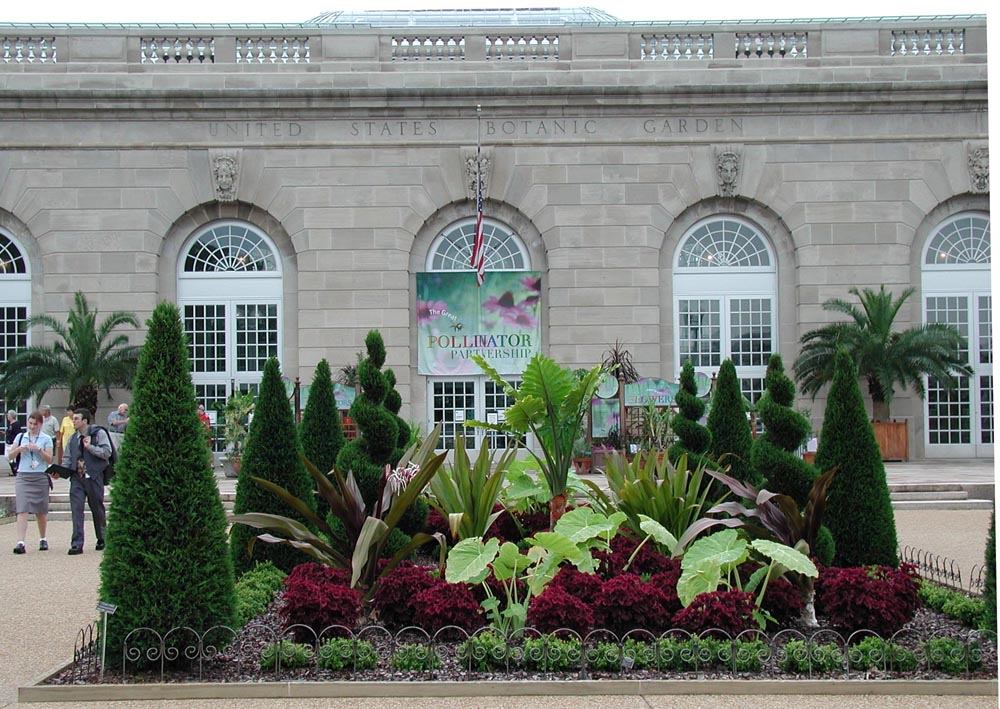 from Image:US botanic garden.jpg 01:42, 25 June 2004 UTC. Taken by Raul654 on June 23, 2004. Uploaded by Alma mater 8:34, 17 April UTC. Picture of the United States Botanic Garden.